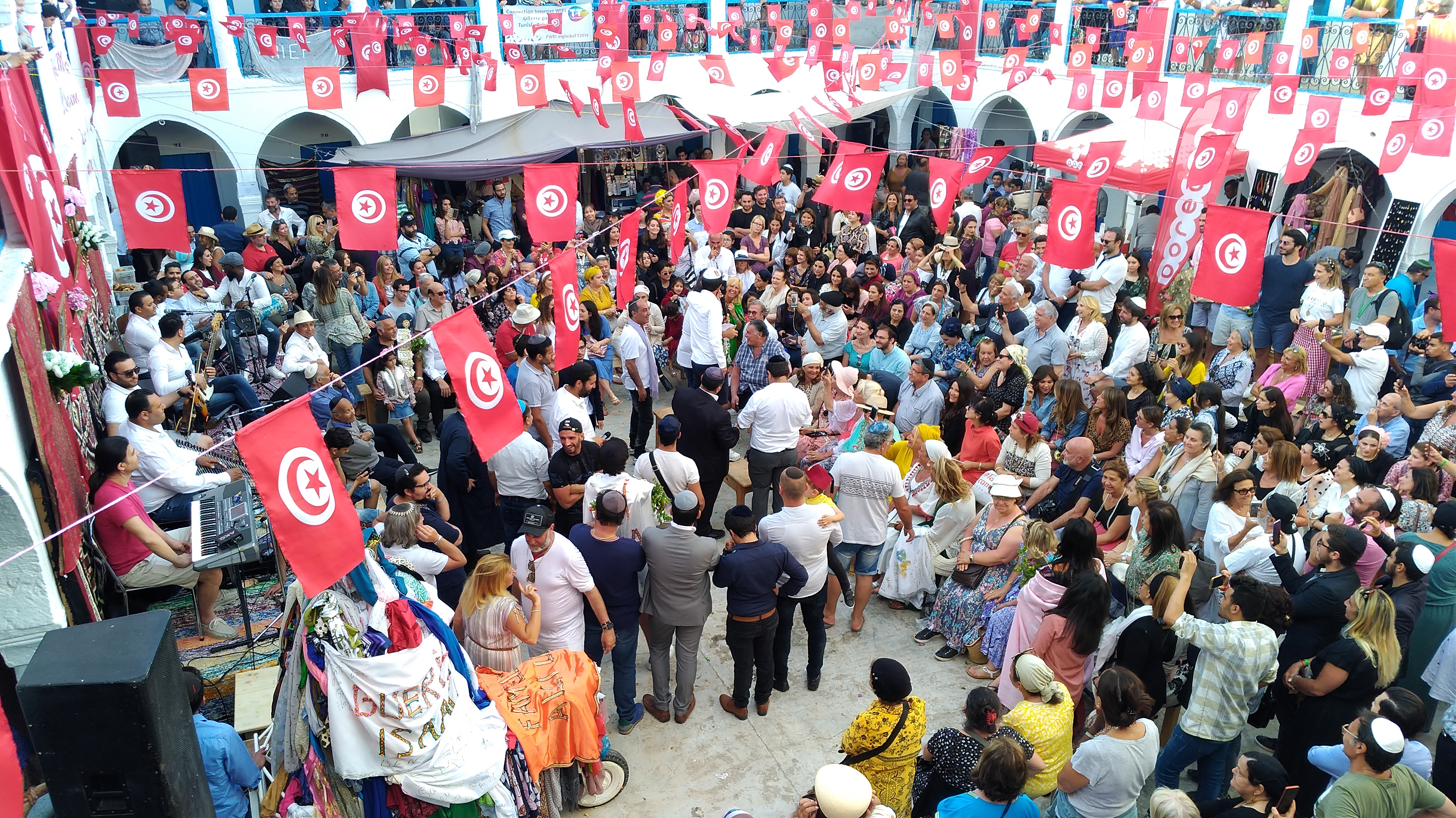 Auction. People buy simple objects and the right to move the menara (the money goes to the synagogue maintenance)